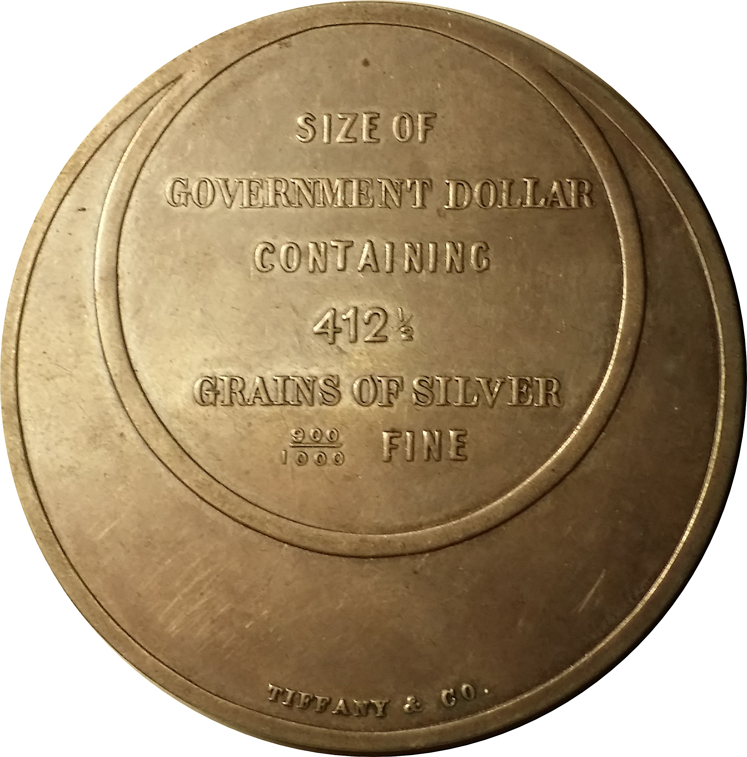 Bryan Money Comparative type produced by Tiffany & Co. SCH-3 obverse.